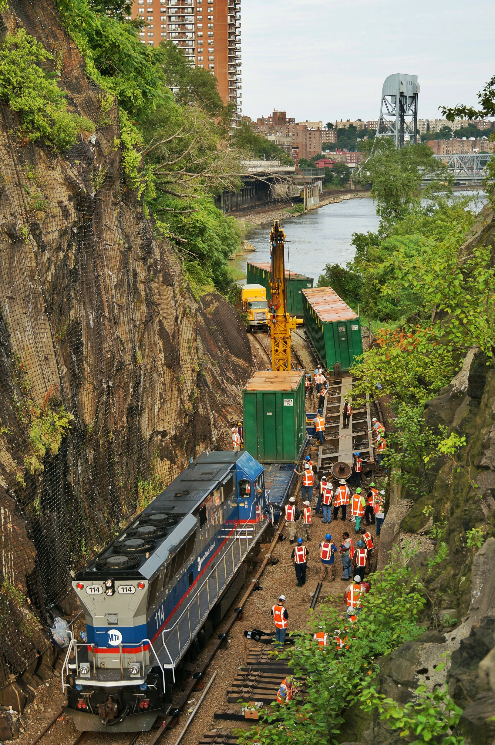 Crews continued Sunday, July 21, 2013, cleaning up the derailed freight train in preparation for restoring Metro-North Railroad's Hudson Line to service for the Monday morning rush hour. MTA Photo by Joseph P. Chan.